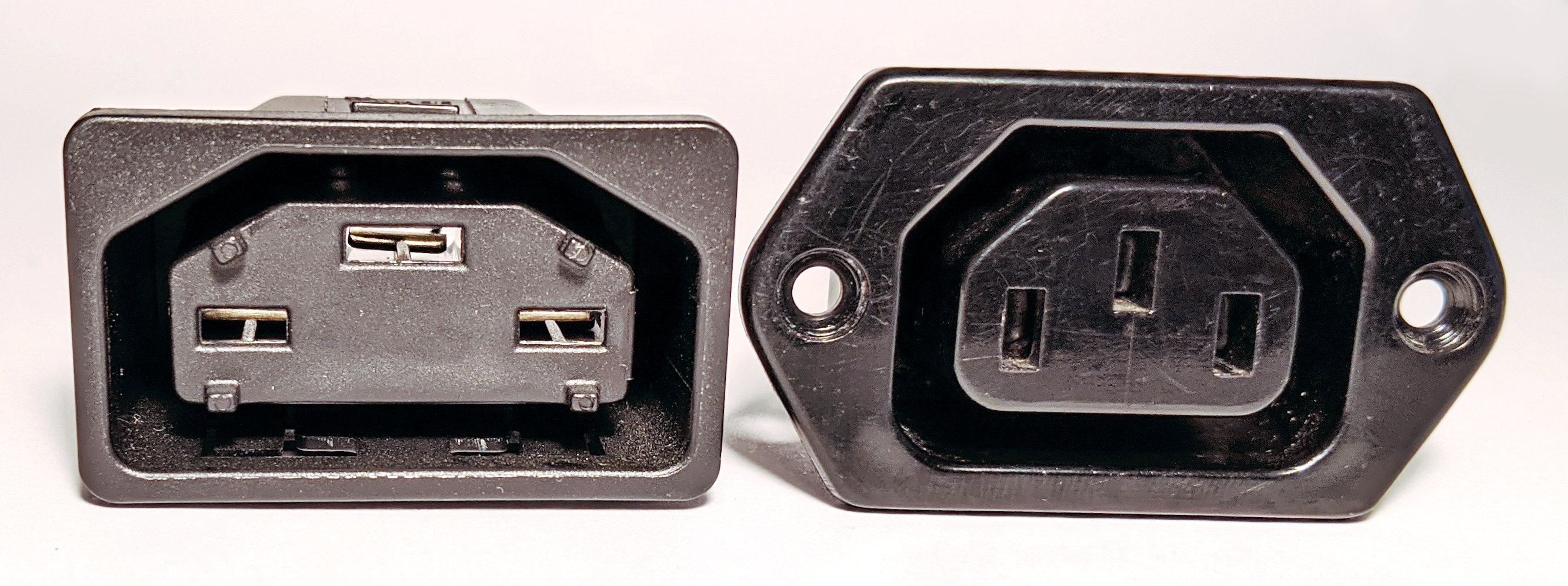 Size comparison of the IEC TS 62735 connector used for supplying DC power at a maximum of 2.6 kW and 400 volts DC (left) and an IEC 320 C13 connector capable of supplying a maximum of 250 volts AC at 10 amps (right).